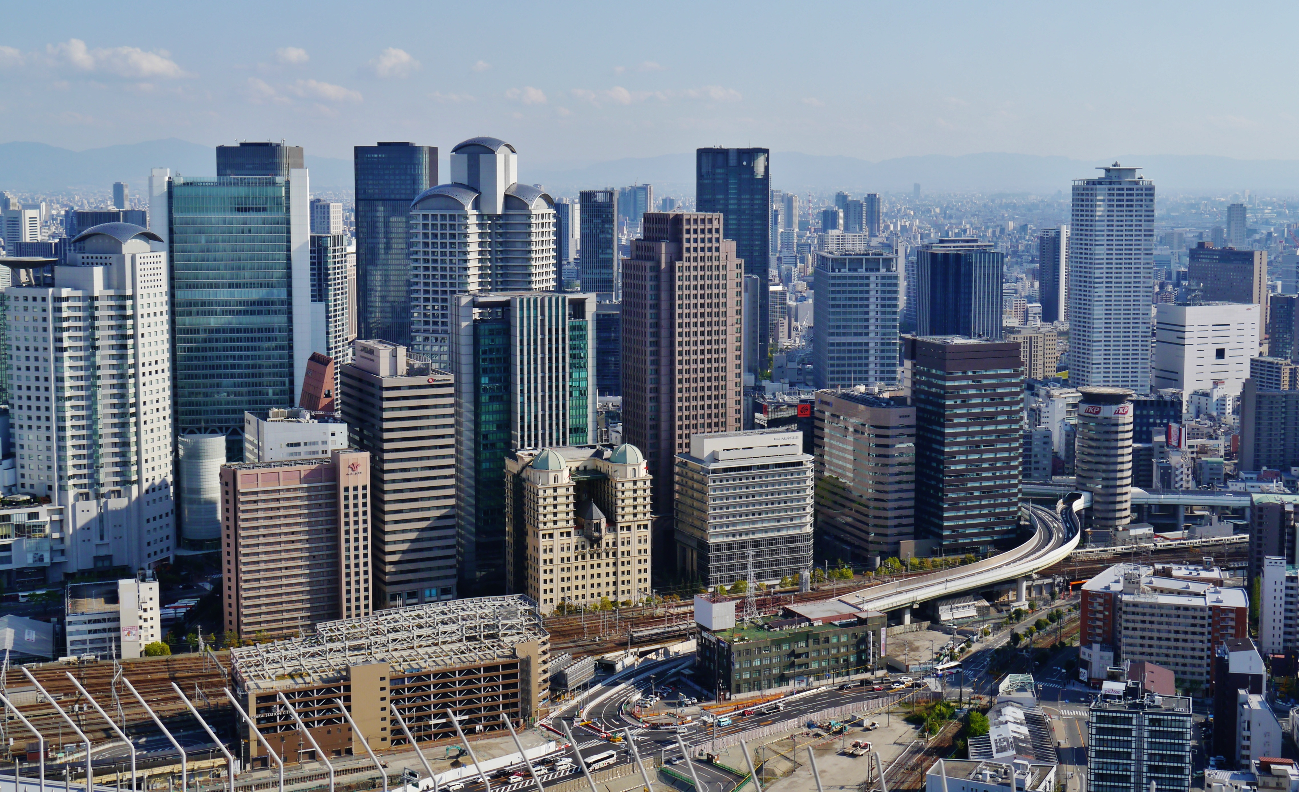 View from the Umeda Sky Building, Osaka, Osaka Prefecture, Kinki Region, Japan